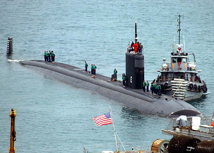 030221-N-0780F-020 Souda Bay, Crete, Greece (21 February 2003) -- The Los Angeles class submarine USS San Juan arrives in Souda Bay for a port visit. She is about to be berthed next to the submarine tender USS Emory S. Land. San Juan is homeported in Groton. U.S. Navy photo by Paul Farley. (RELEASED).